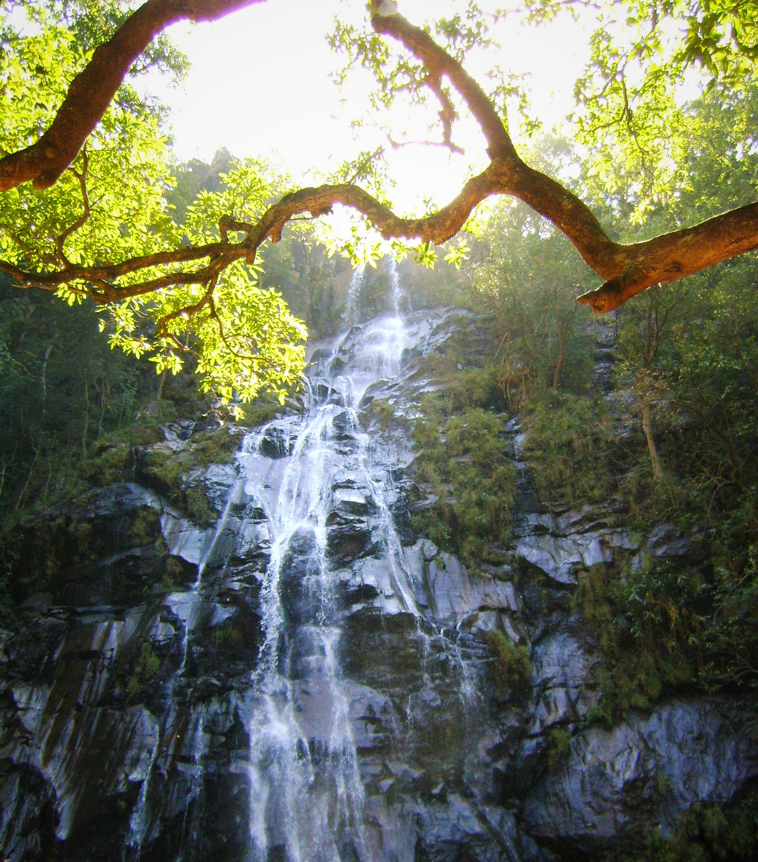 Bee Falls,Madhya Pradesh.